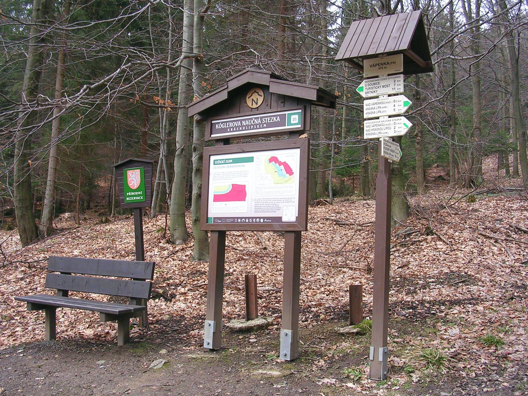 Kögler's Educational Trail (geologically), Ústí nad Labem Region, Lusatian Mountains, the Czech Republic.